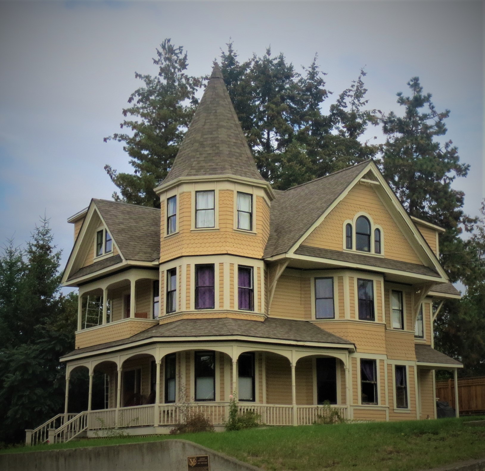 Campbell House Vernon, BC